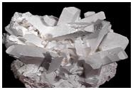 Borax, crystal step